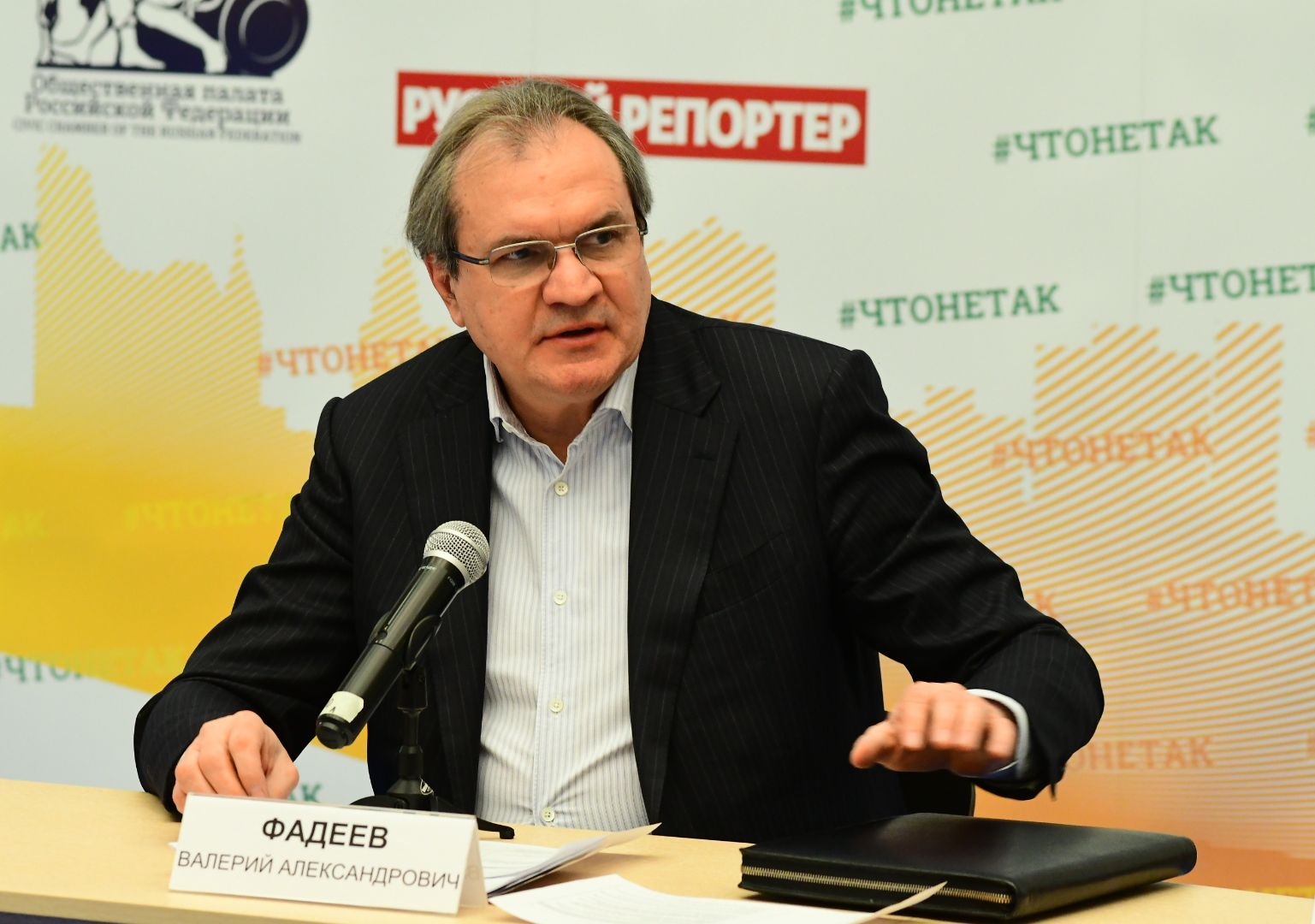 Valery Fadeyev on February 28, 2018 at the roundtable # CHTONETAK which the Civic Chamber of the Russian Federation organized in Nizhny Novgorod